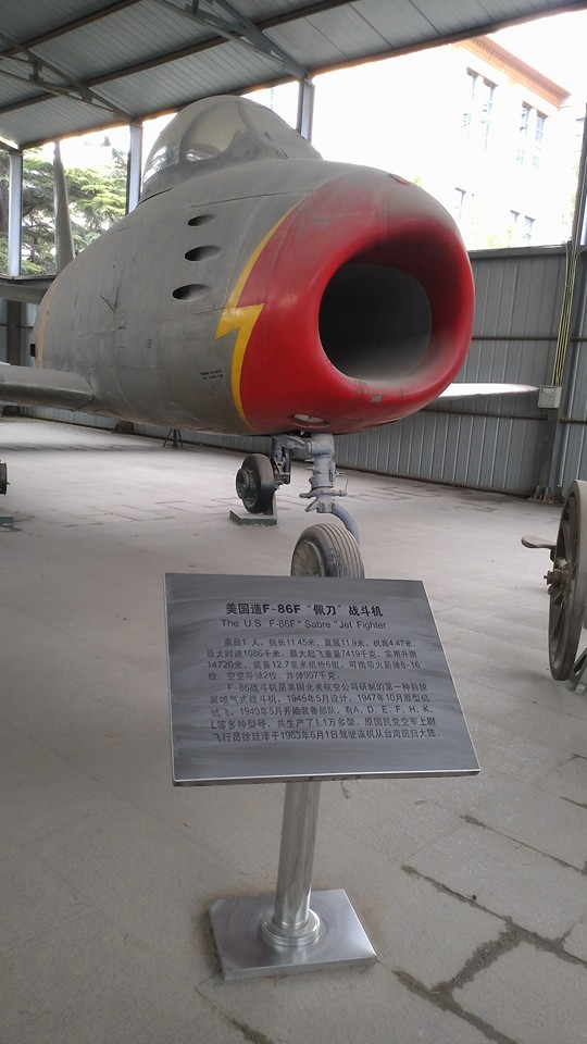 F-86